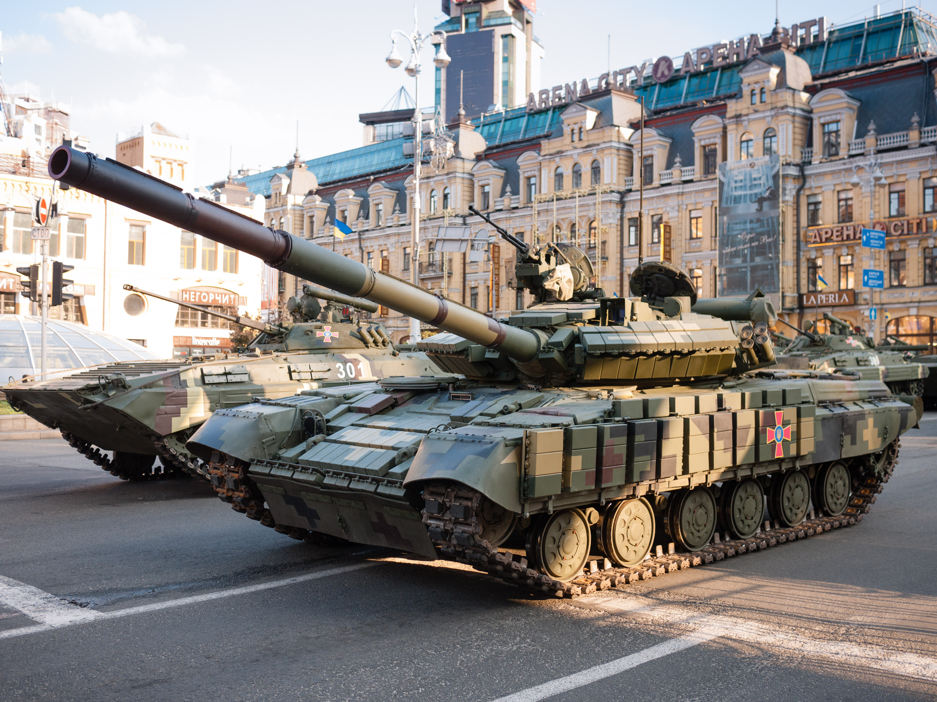 T-64BV ver. 2017 main battle tank, rehearsal for the Independence Day military parade in Kyiv, 2018